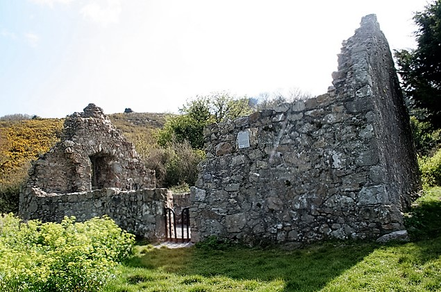 Raheenachluig Church Bray